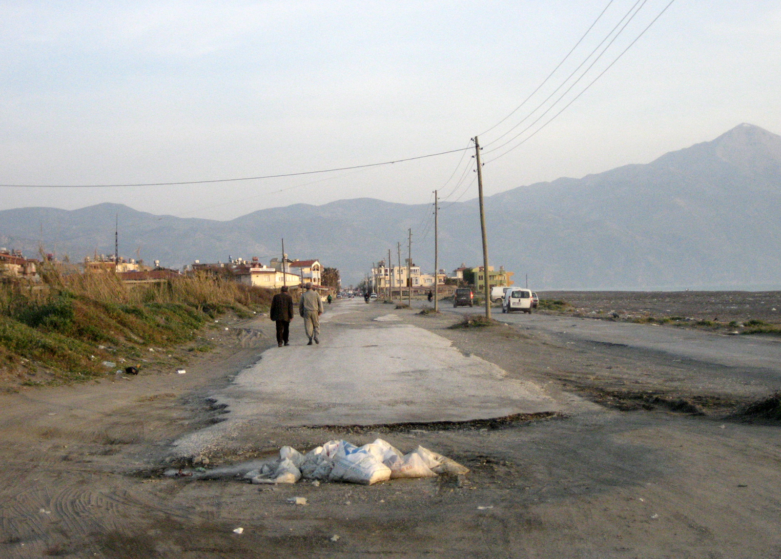 Samandağ, seen from the Samandağ-Cevlik coastal road. Hatay province, Turkey.